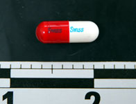 The Pasadena Regional Crime Lab (Texas) recently received 21 red and white capsules with an imprint of “Swiss” (see Photo 10). The capsules (total net mass 10.3 grams) were seized in Seabrook by the Seabrook Police Department along with seven other exhibits from a possession of marijuana charge (no further details). Analysis of the capsules by GC/MS, UV, FTIR, and Sulfuric Acid test indicated 17-methyltestosterone and lactose. Although not quantitated, the capsules had a moderately heavy loading of 17-methyltestosterone based on the TIC. This is the laboratory's first encounter with a steroid in this type of dosage form.